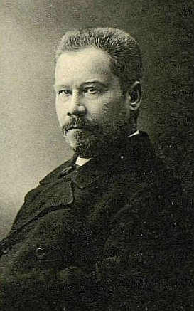 Ivan Godnev